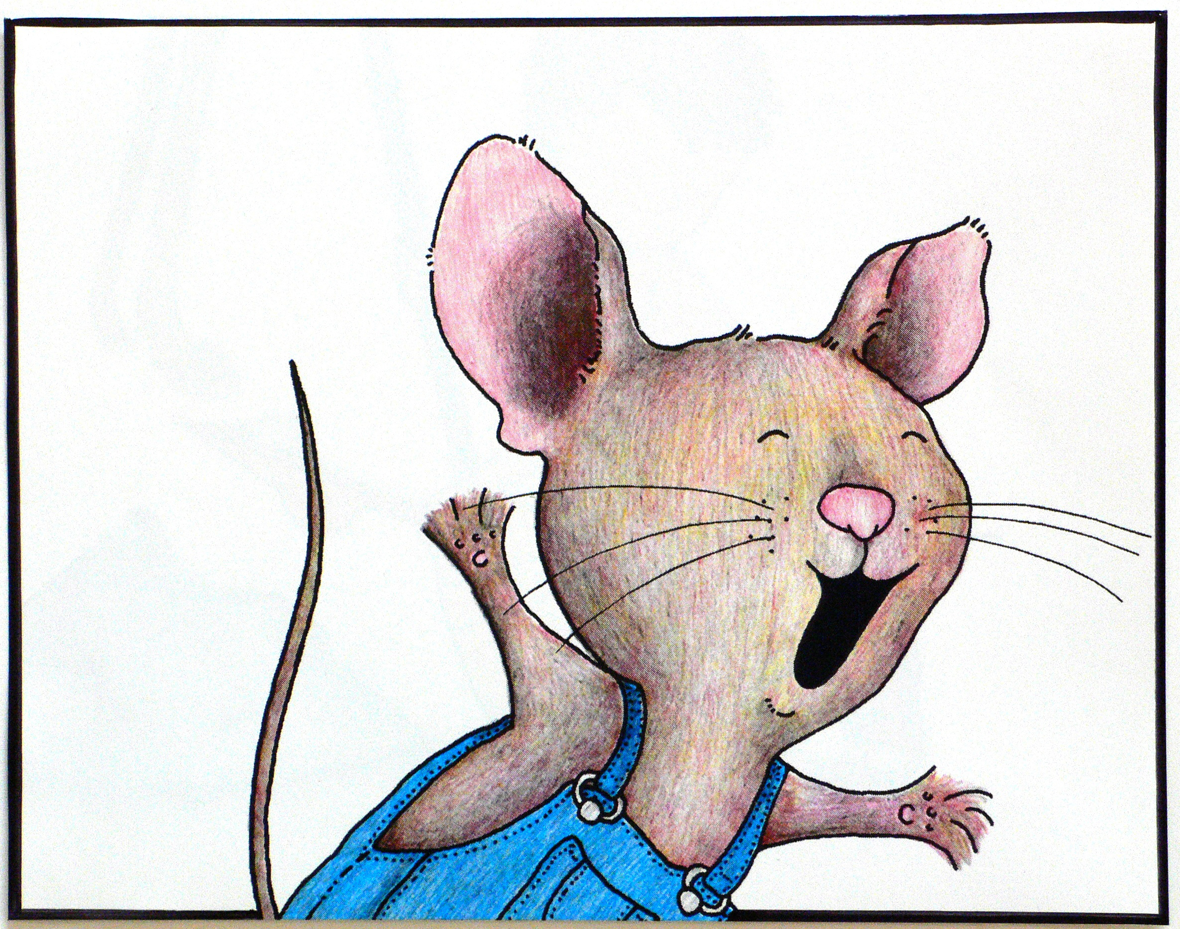 If You Give a Mouse a Cookie (11), illustrated by Felicia Bond (illustrator, children's book illustrator)